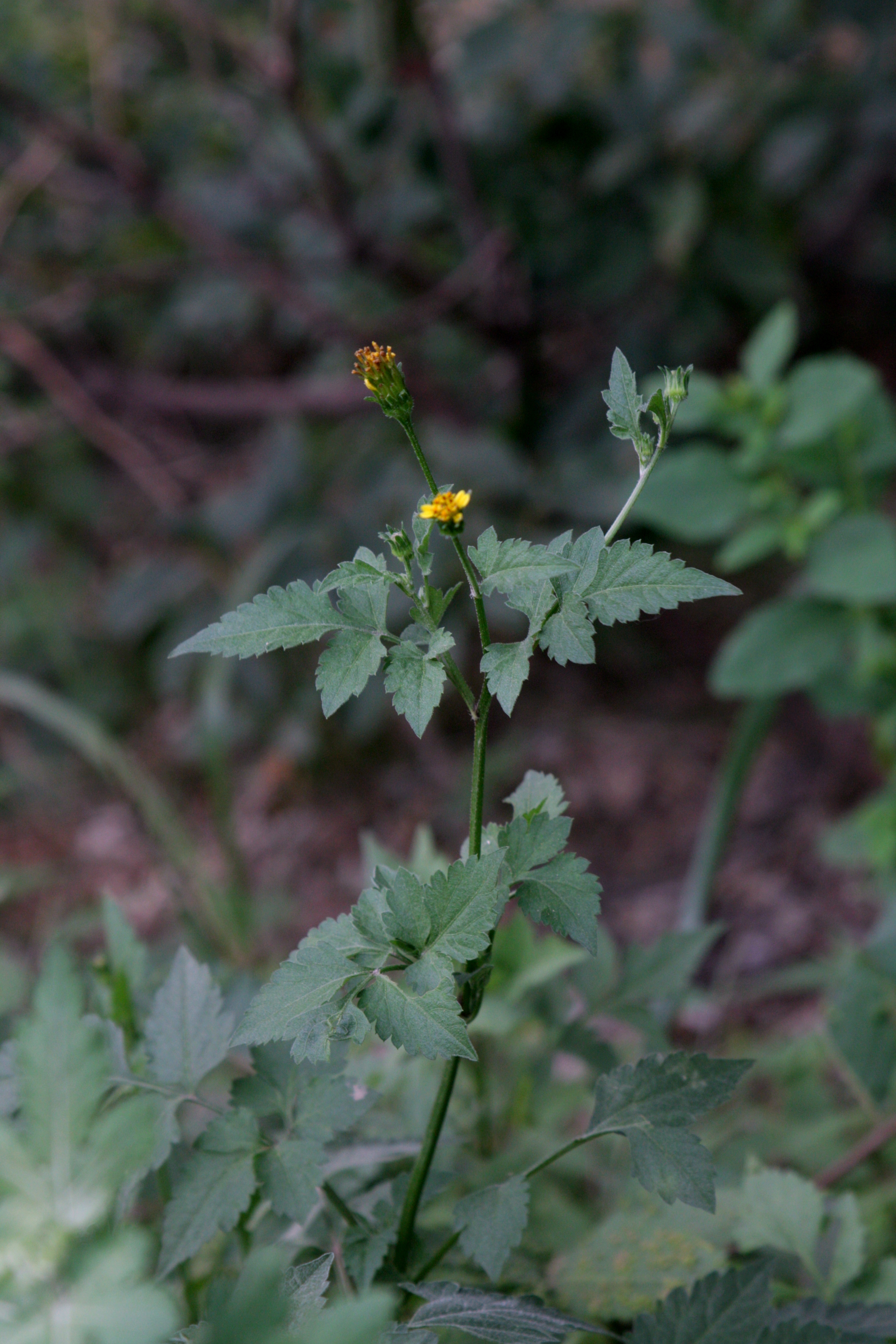 Bidens bipinnata